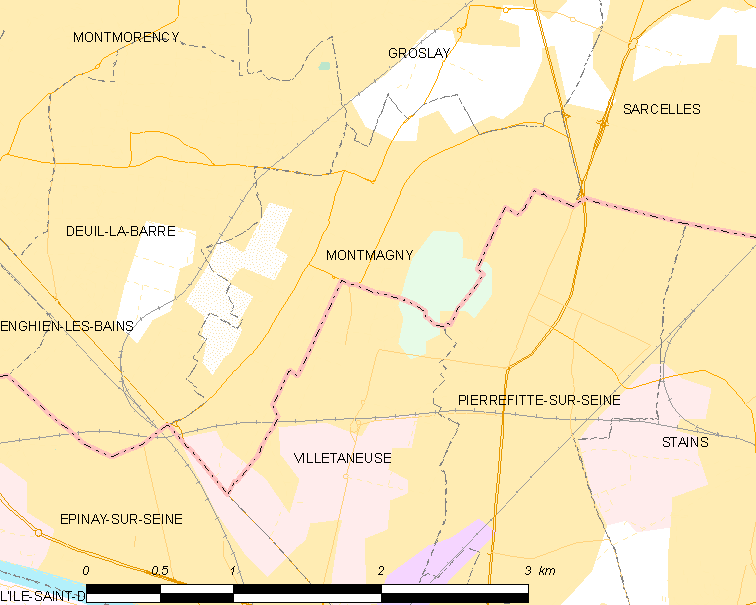 Map of French municipality Montmagny